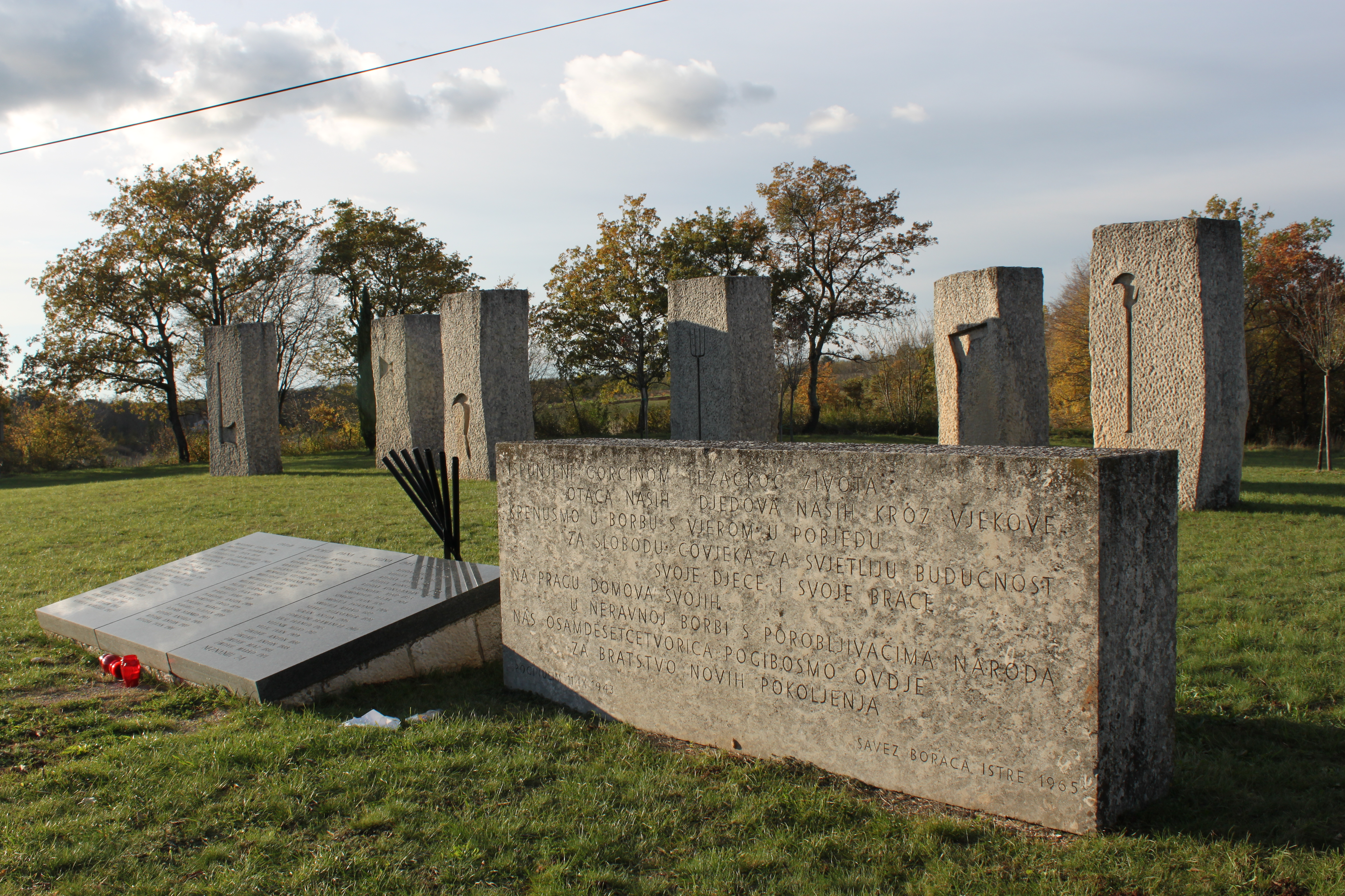 Monument to 84 partisans and local villagers killed by Nazi soldiers during WWII near the village of Tićan, Croatia.